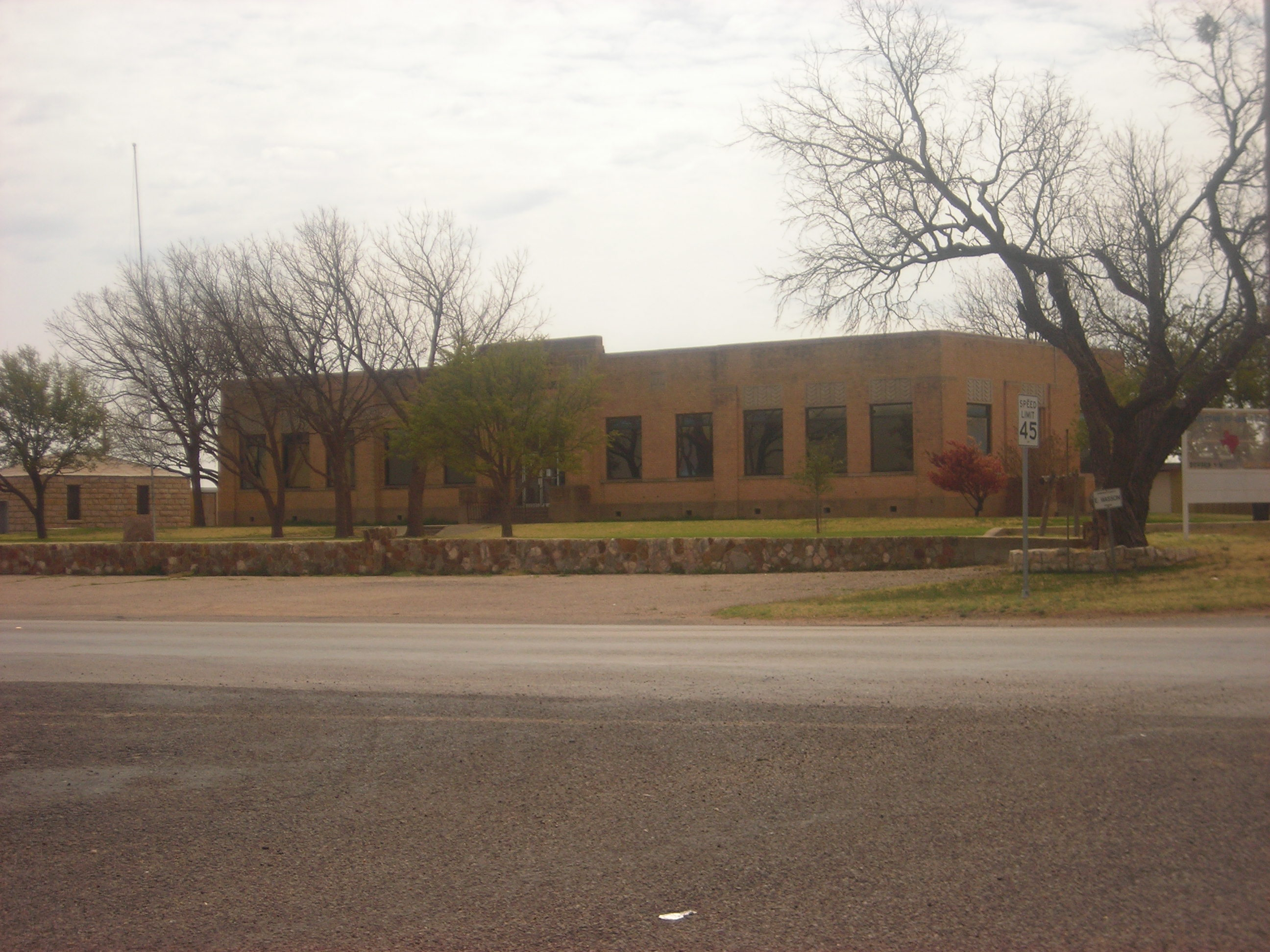 The Borden County Courthouse in Gail